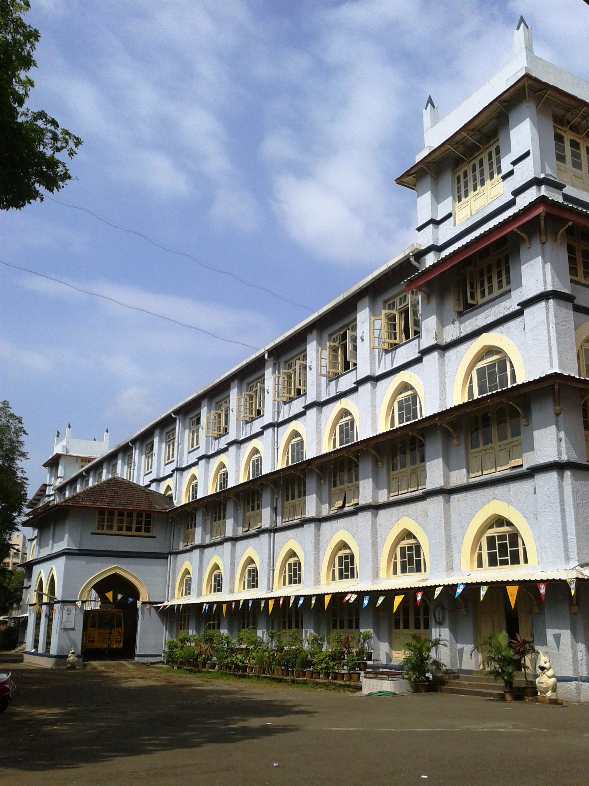 Facade of St. Agnes High School, Byculla, Mumbai